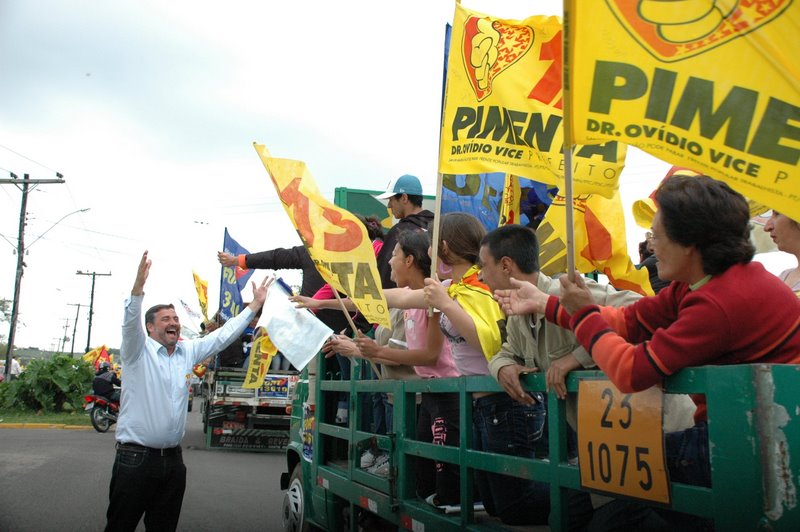 File from the historical archives to develop the Paulo Pimenta profile of the lusophone wikipedia